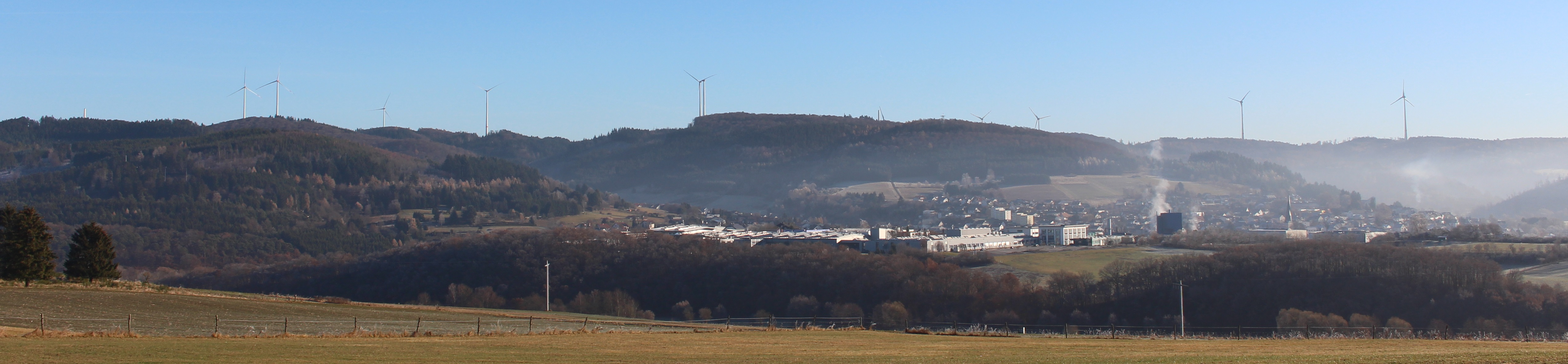 Schwarzenberg and Weißenberg Wind Farm (on the right in background): View from east on wind farm, place of view: between Wiesenbach and Kleingladenbach.